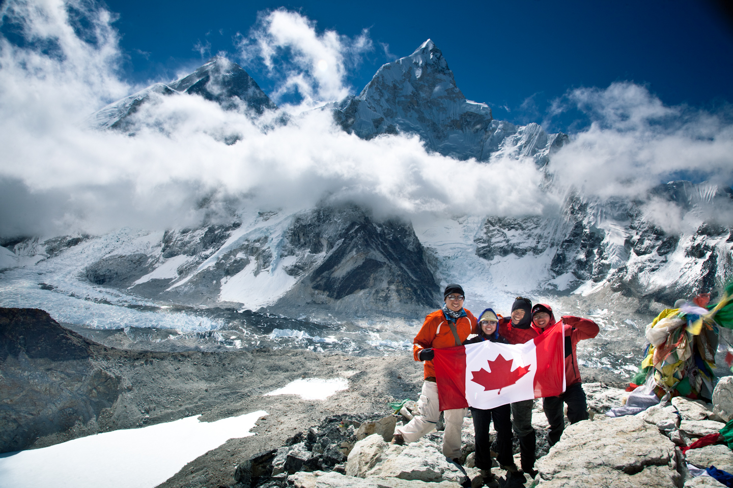 Kala Patthar is the best and closest viewpoint of Mount Everest that is achievable without having mountaineering skills. At a peak altitude of 5550m, the air is thin - 50% of what is at sea level. The slightest exertion going uphill will send your lungs gasping for air. We woke up early on a foggy Sunday, May 8 to ascend it. Our guide said it was about -10 to -15C. We were freezing. But alas, we fought on to be at one of the highest places on the planet... and to be next to Mount Everest.